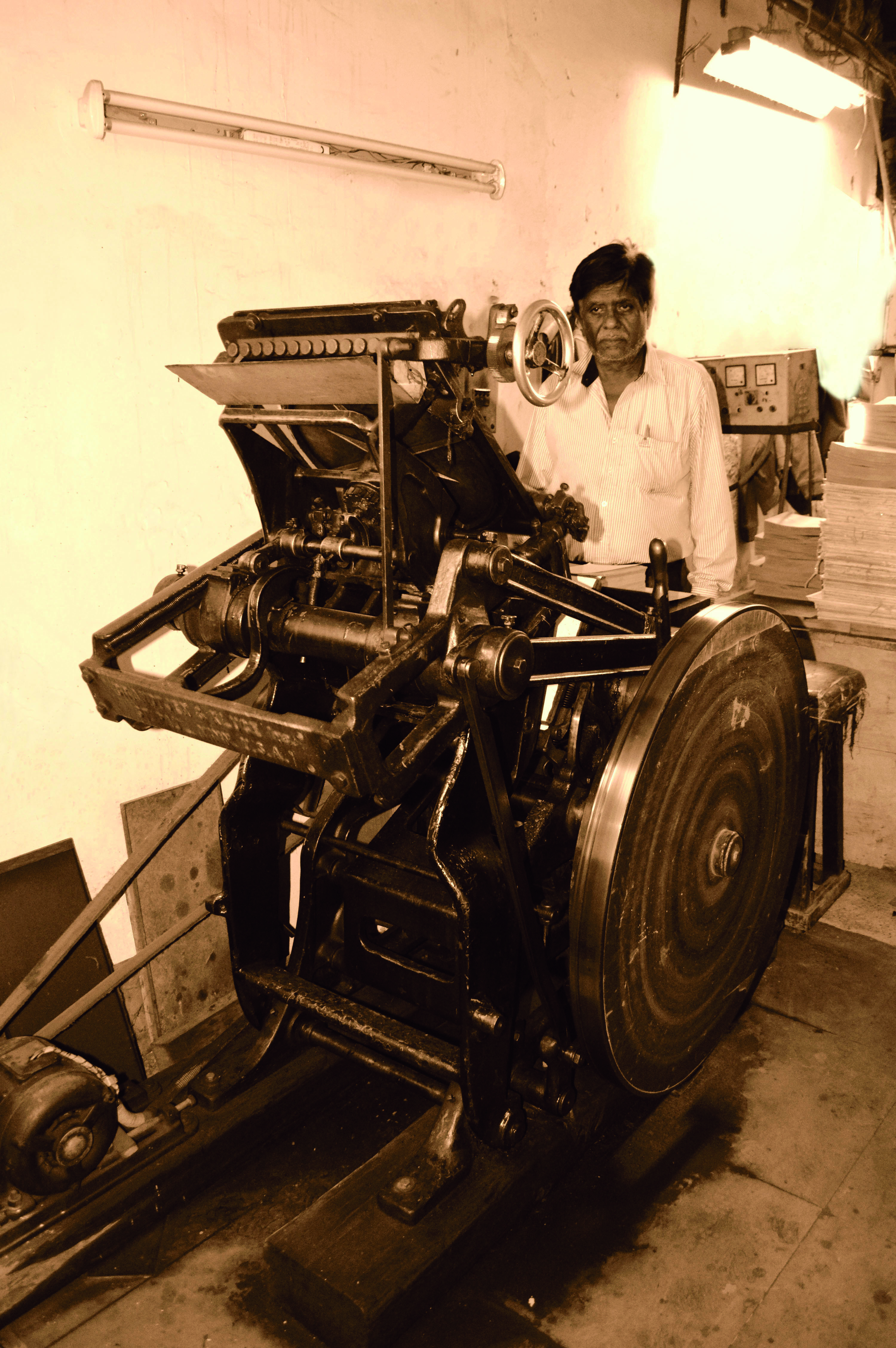 Offset Machine manufactured byBrantjen & Kluge Inc